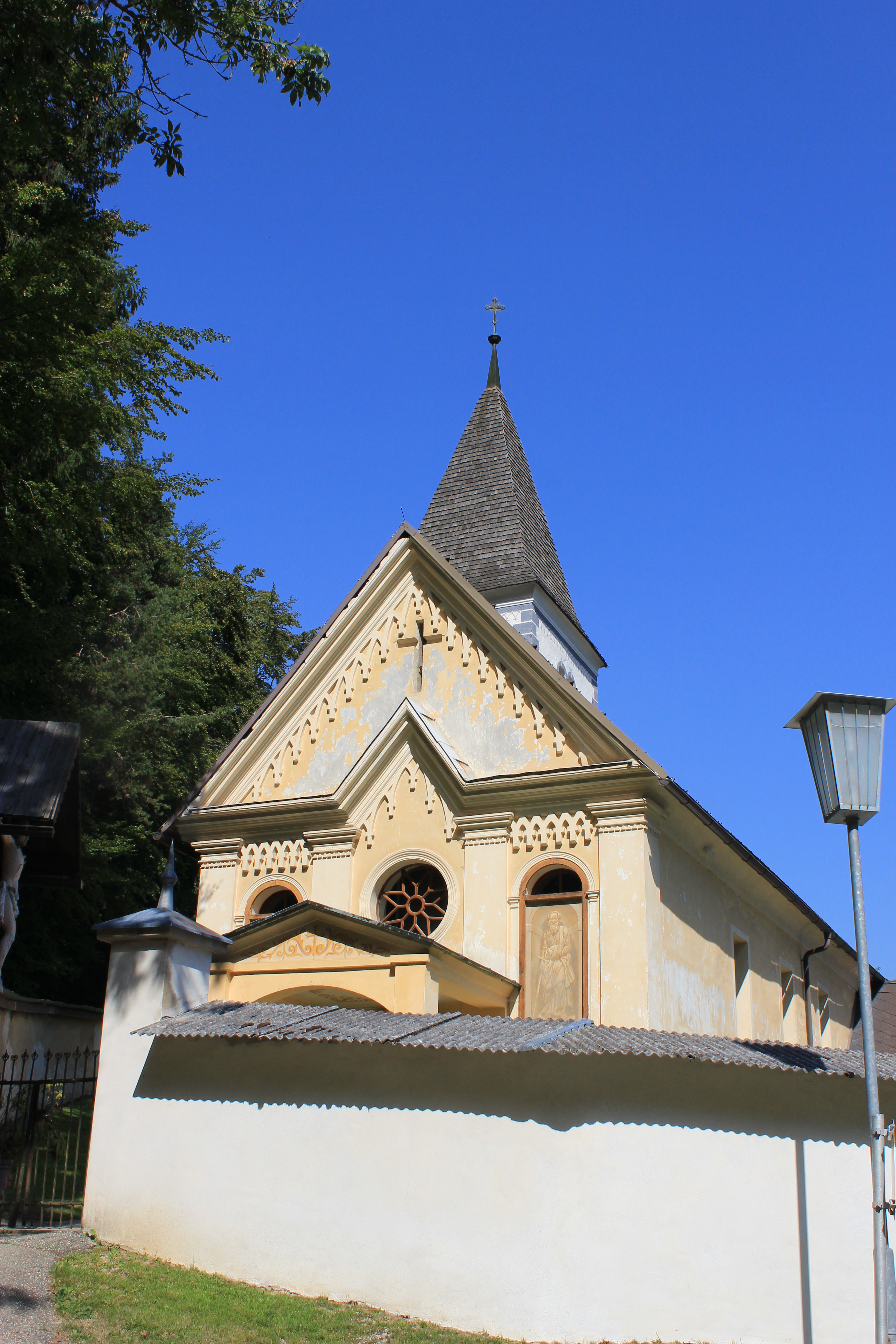 Church in St Veit im Jauntal in the community of Sankt Kanzian am Klopeiner See